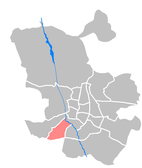 Locator maps of districts in Madrid: Maps - ES - Madrid - Carabanchel.PNG